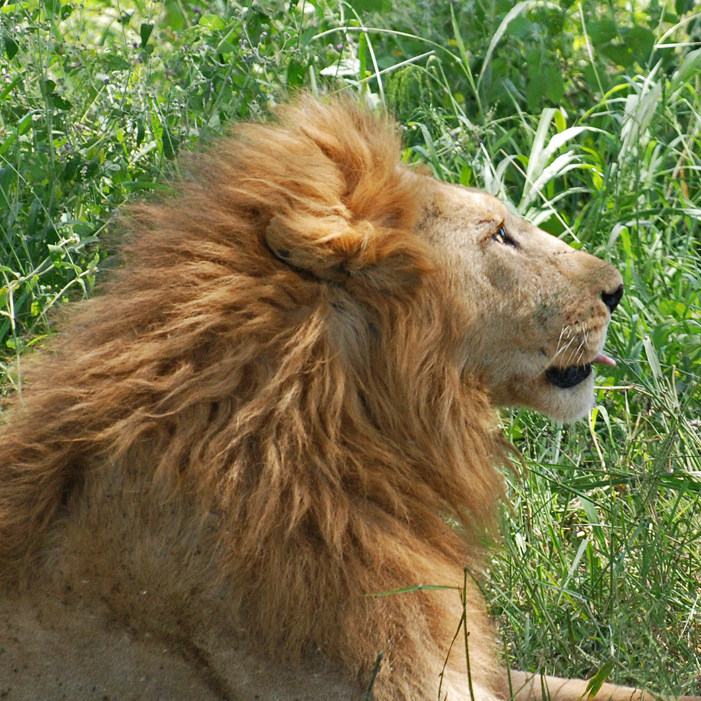 The lion (Panthera leo) is one of the four big cats in the genus Panthera, and a member of the family Felidae.